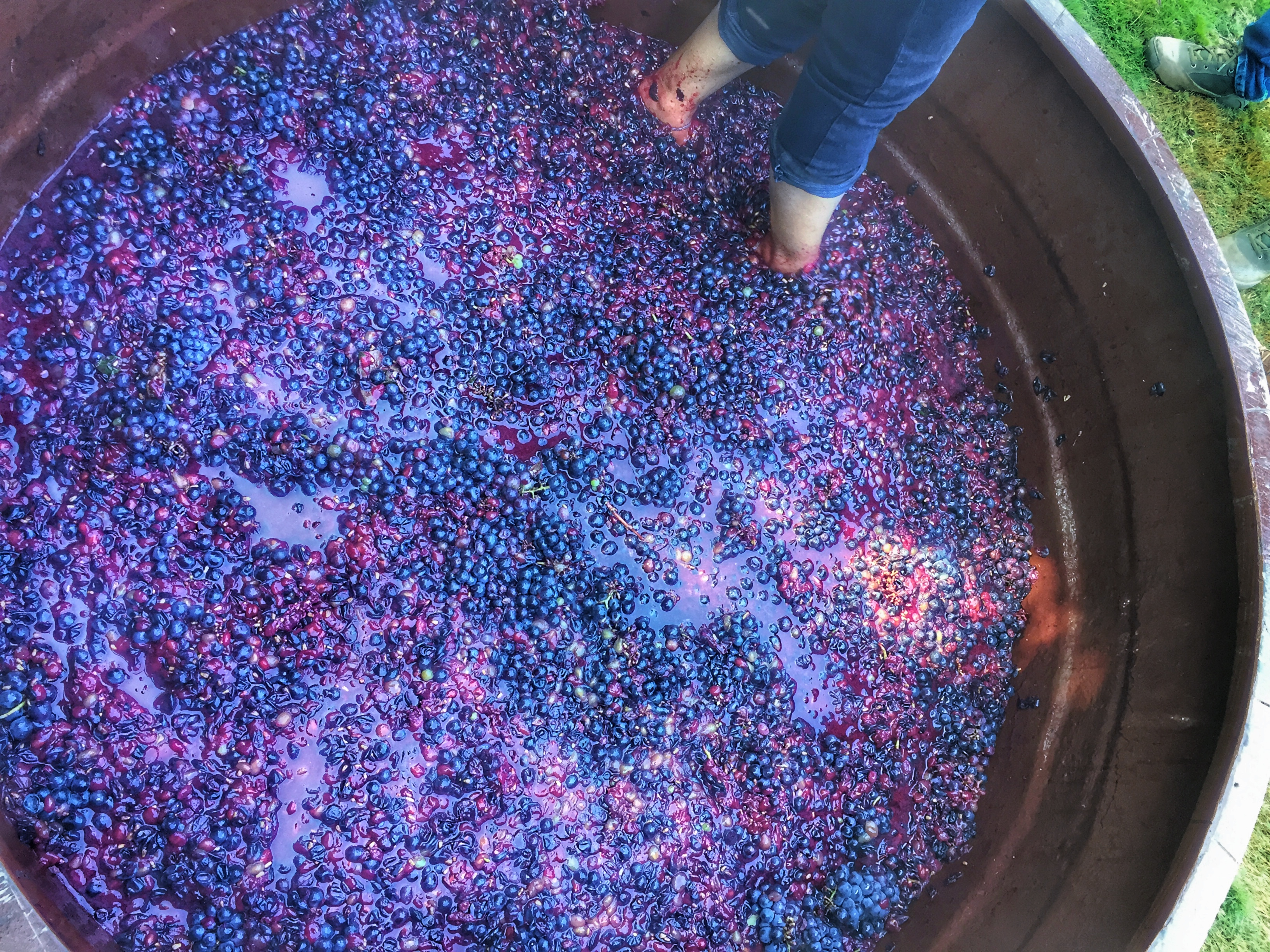 Grape stomping at the Grover vineyard, Doddabalapura, Karnataka.